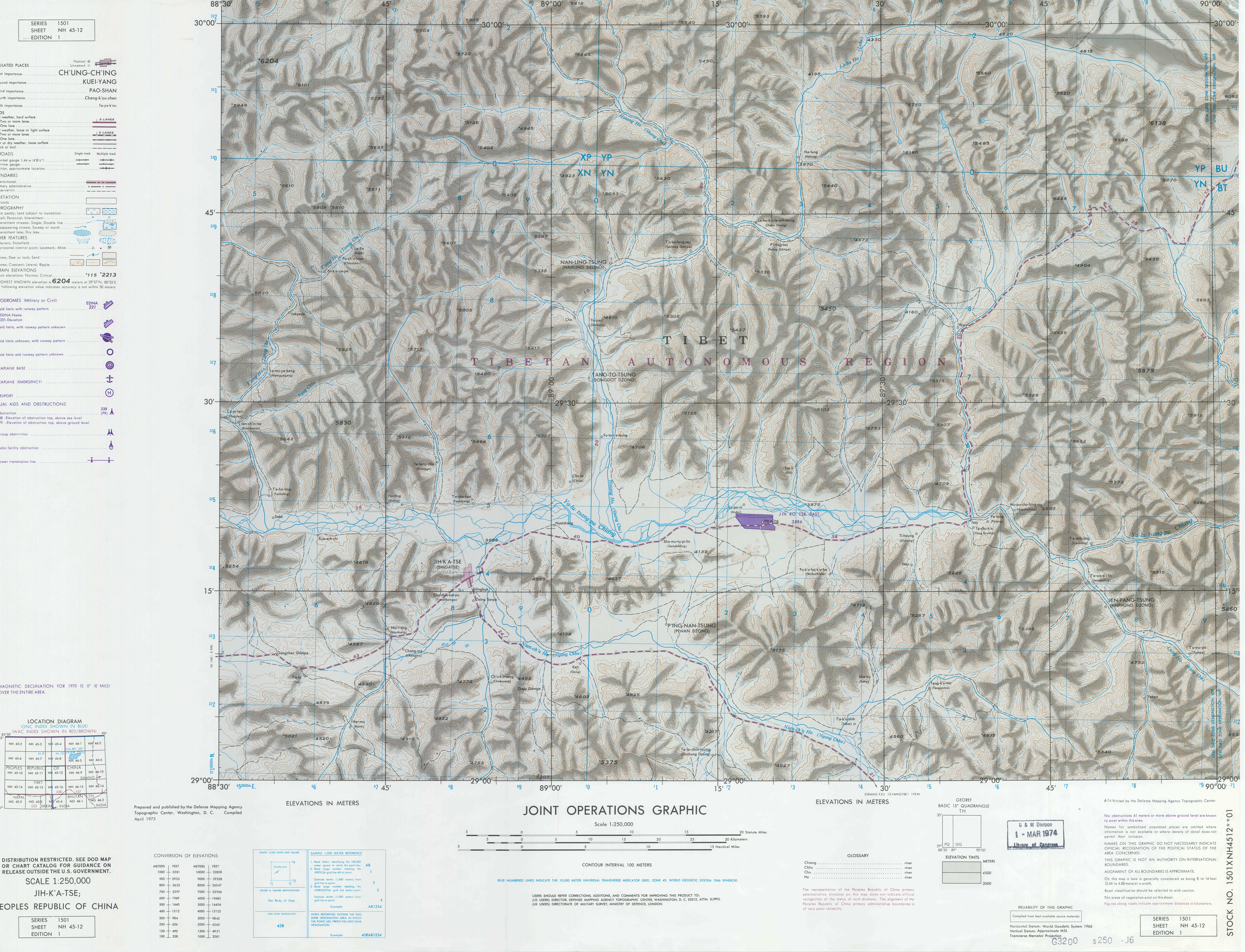 NH-45-12 Jihkatse China